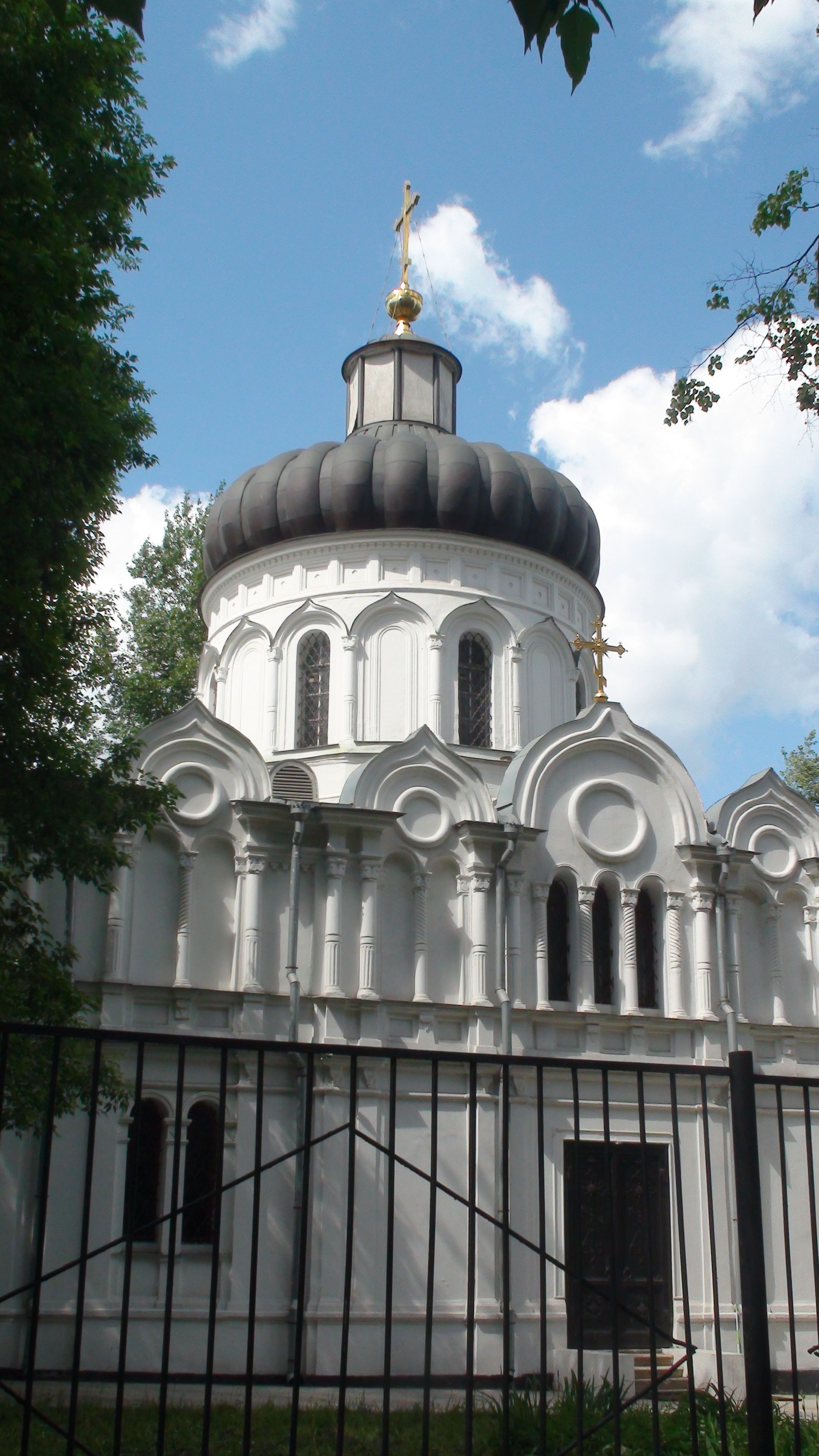 Храм Алексия Человека Божия в Красном селе